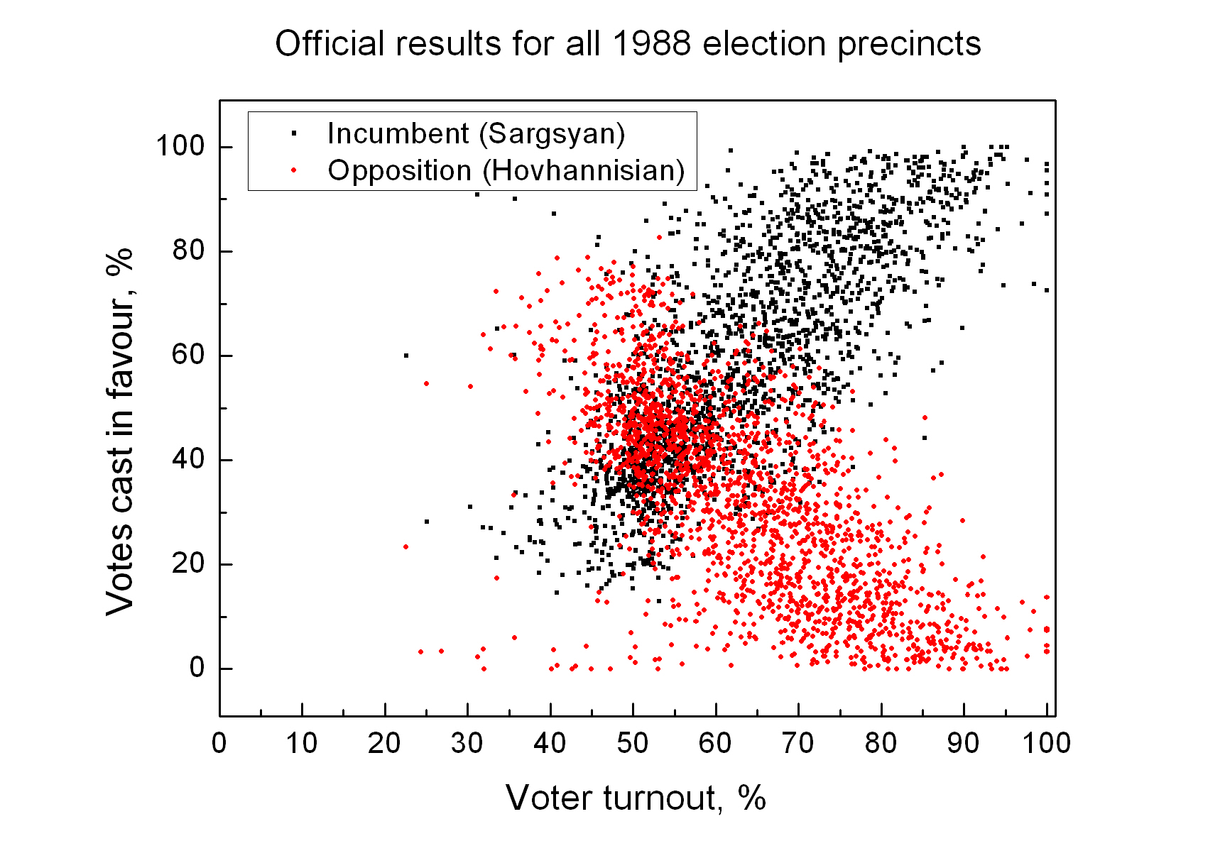 Voter turnout vs votes cast in favor of a candidate in 2013 Armenian presidential elections.